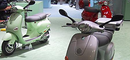 Selection of scooters from a Docklands (uk) motorbike show in 2002. Photo taken by BB98uk.